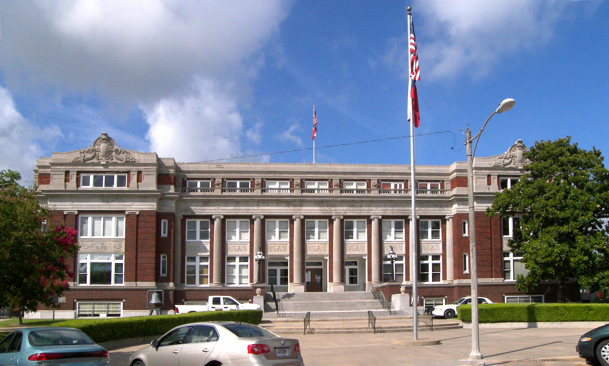 The Limestone County Courthouse located in, Groesbeck, Texas, United States.